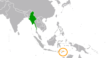 Map showing locations of both Myanmar and East Timor